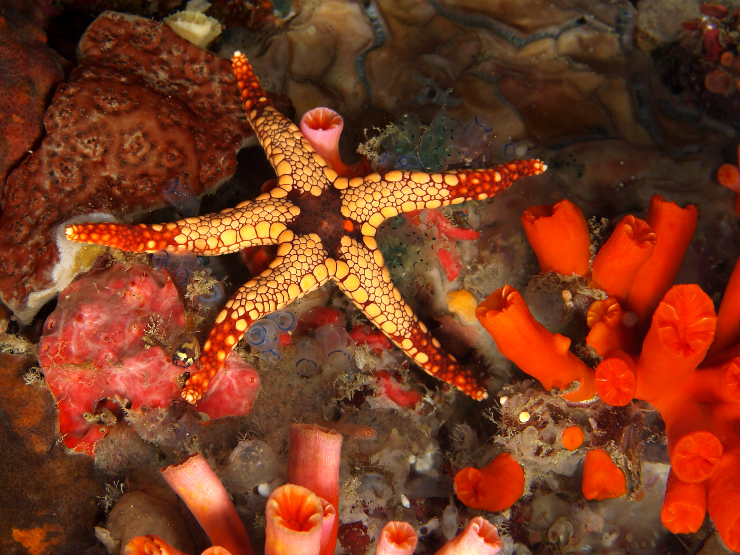 Fromia monilis starfish